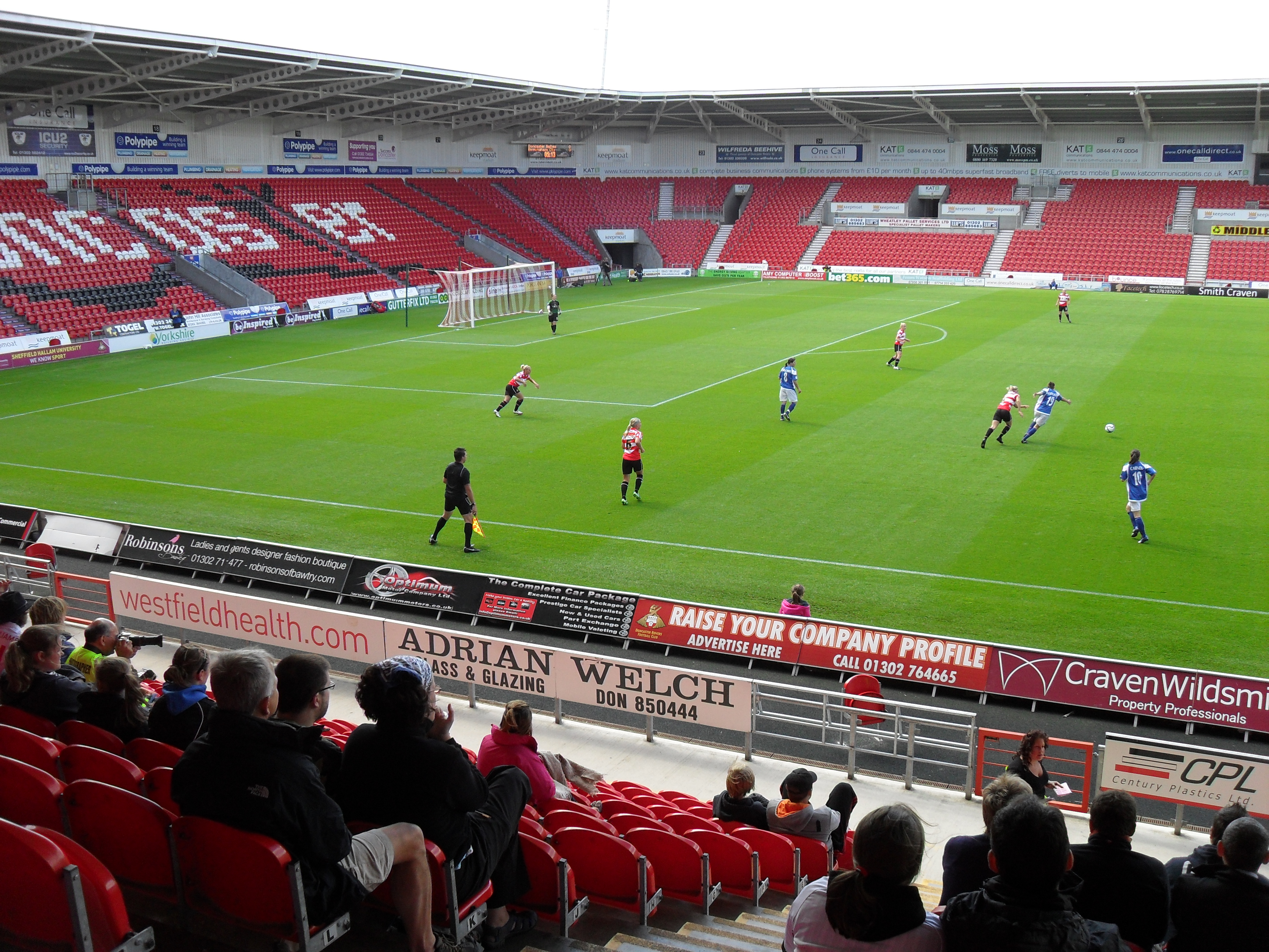 Doncaster Rovers Belles LFC playing an FA WSL match against Birmingham City LFC at Keepmoat Stadium, 28 August 2011.